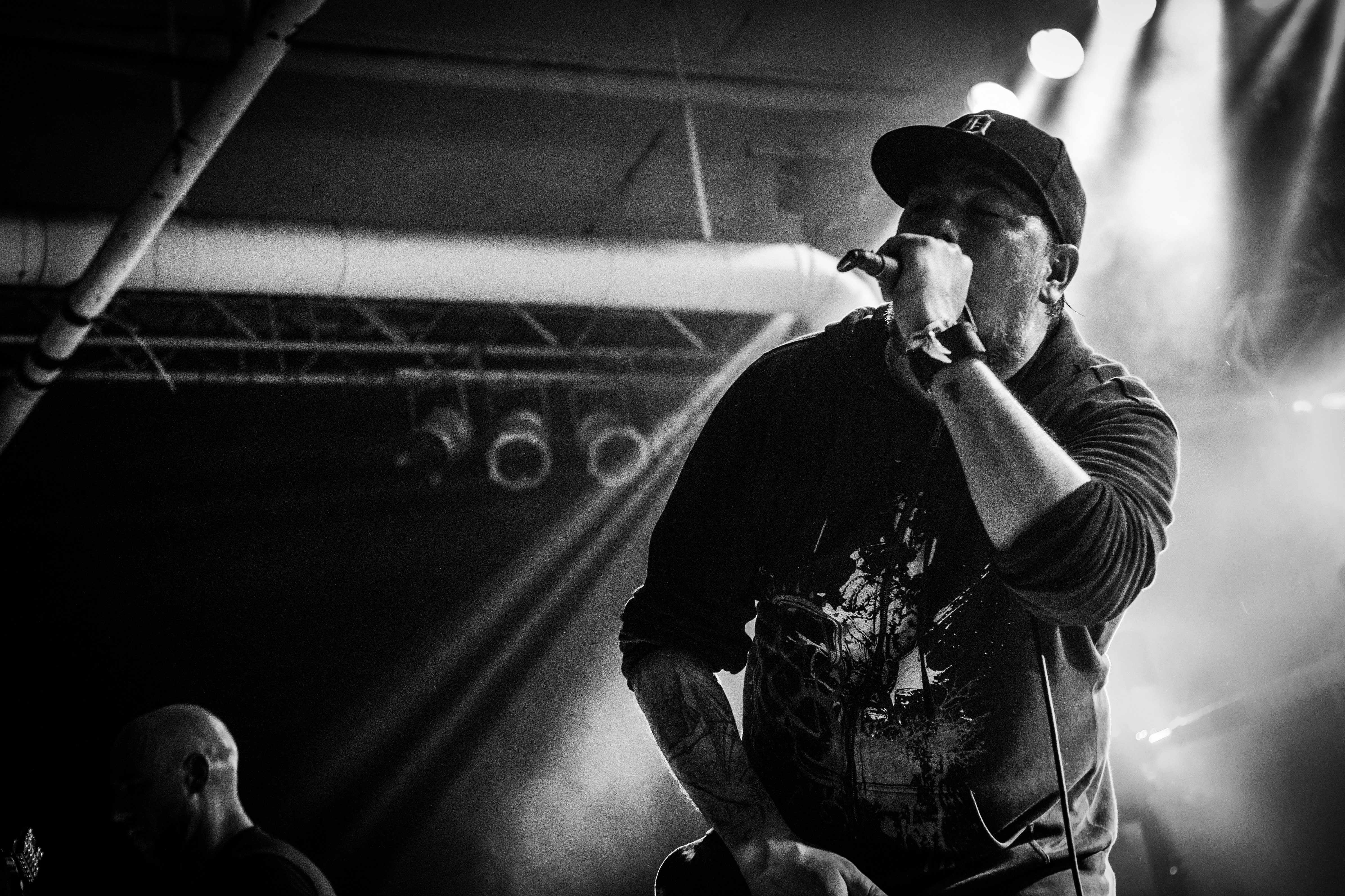 Car Bomb performing live at Euroblast Festival, Cologne 2017